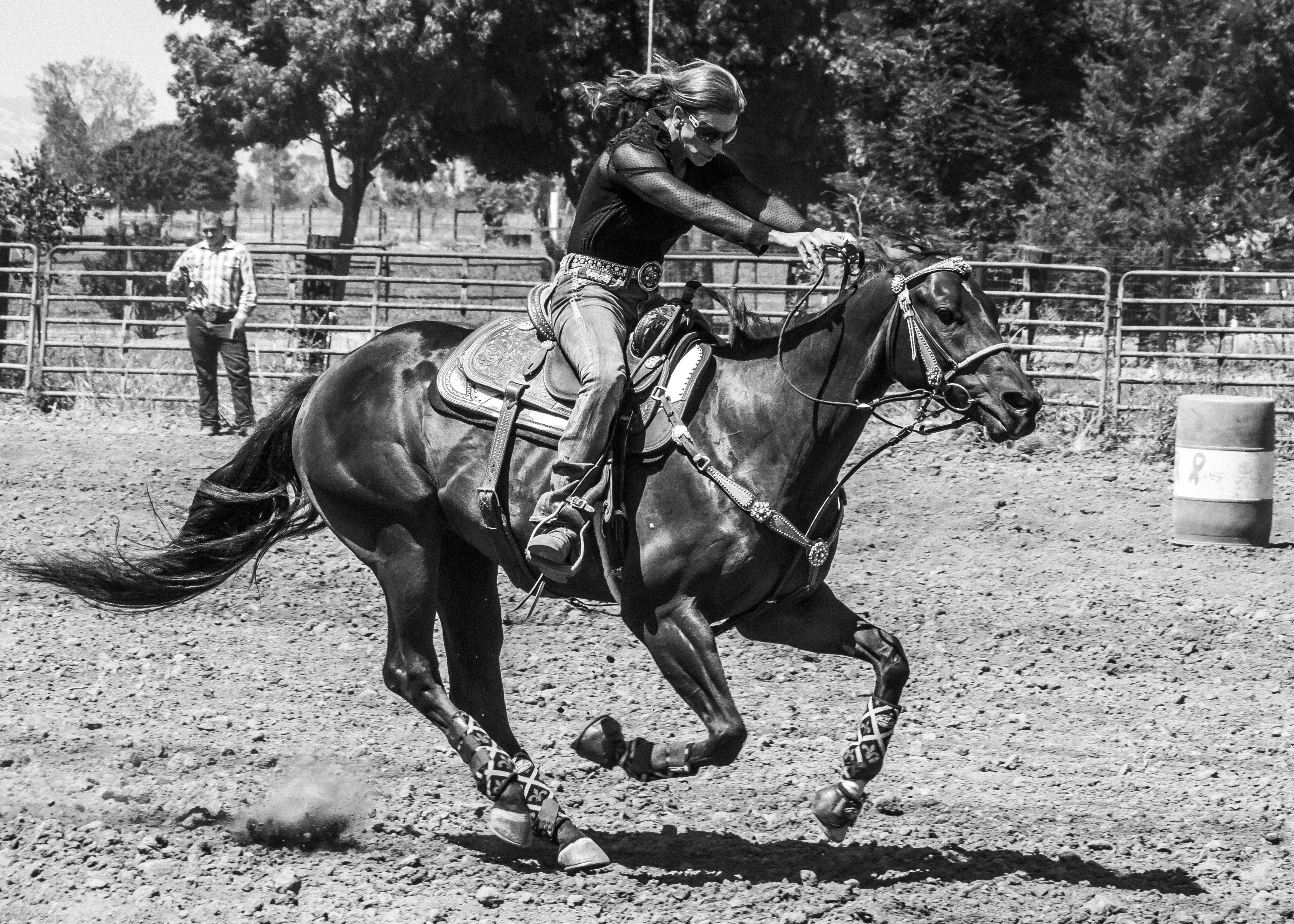 Cowgirl Fast